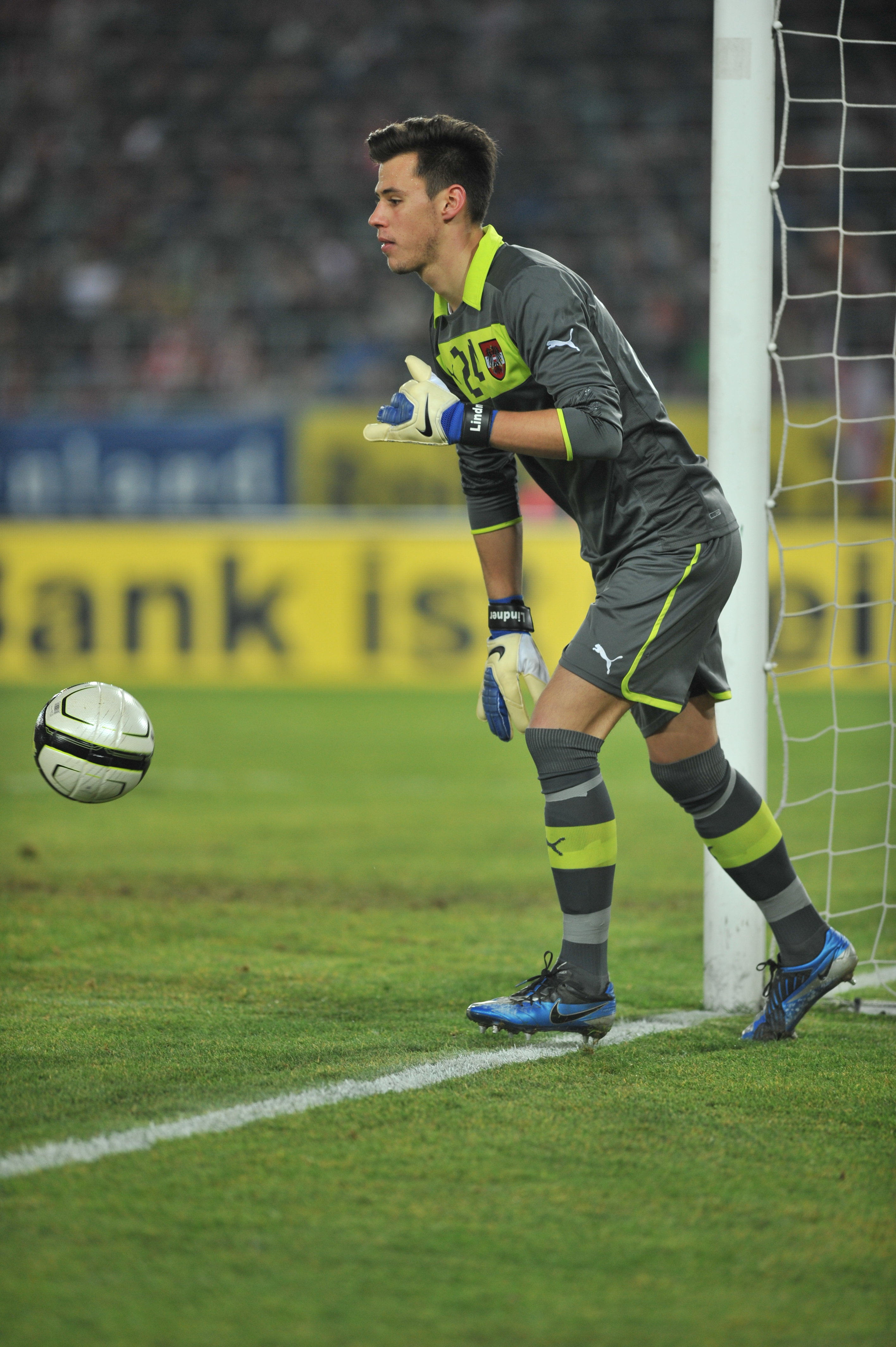 ÖFB freundschaftliches Länderspiel - Österreich vs Elfenbeinküste am 14. November 2012 The making of this work was supported by Wikimedia Austria. For other files made with the support of Wikimedia Austria, please see the category Supported by Wikimedia Österreich. 24 (GK): Heinz Lindner